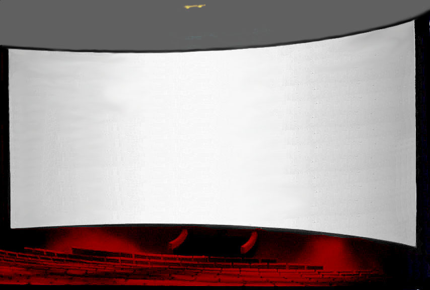 Original Cinerama screen in Bellevue Cinerama Theater Amsterdam. This cinema is demolished.